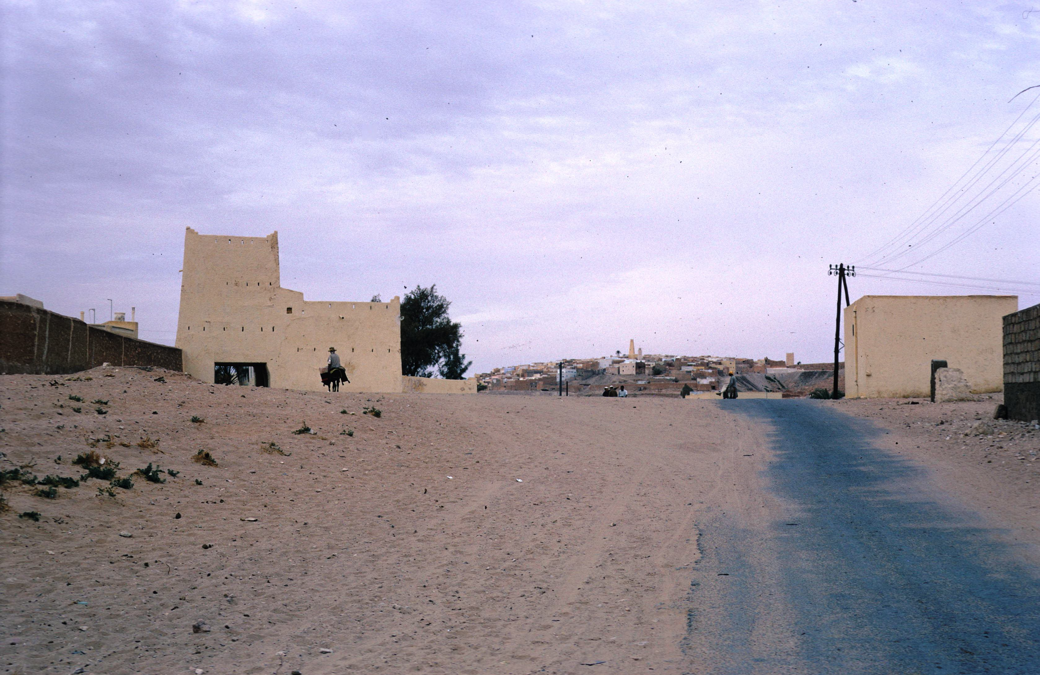 Beni Izguen, Algeria